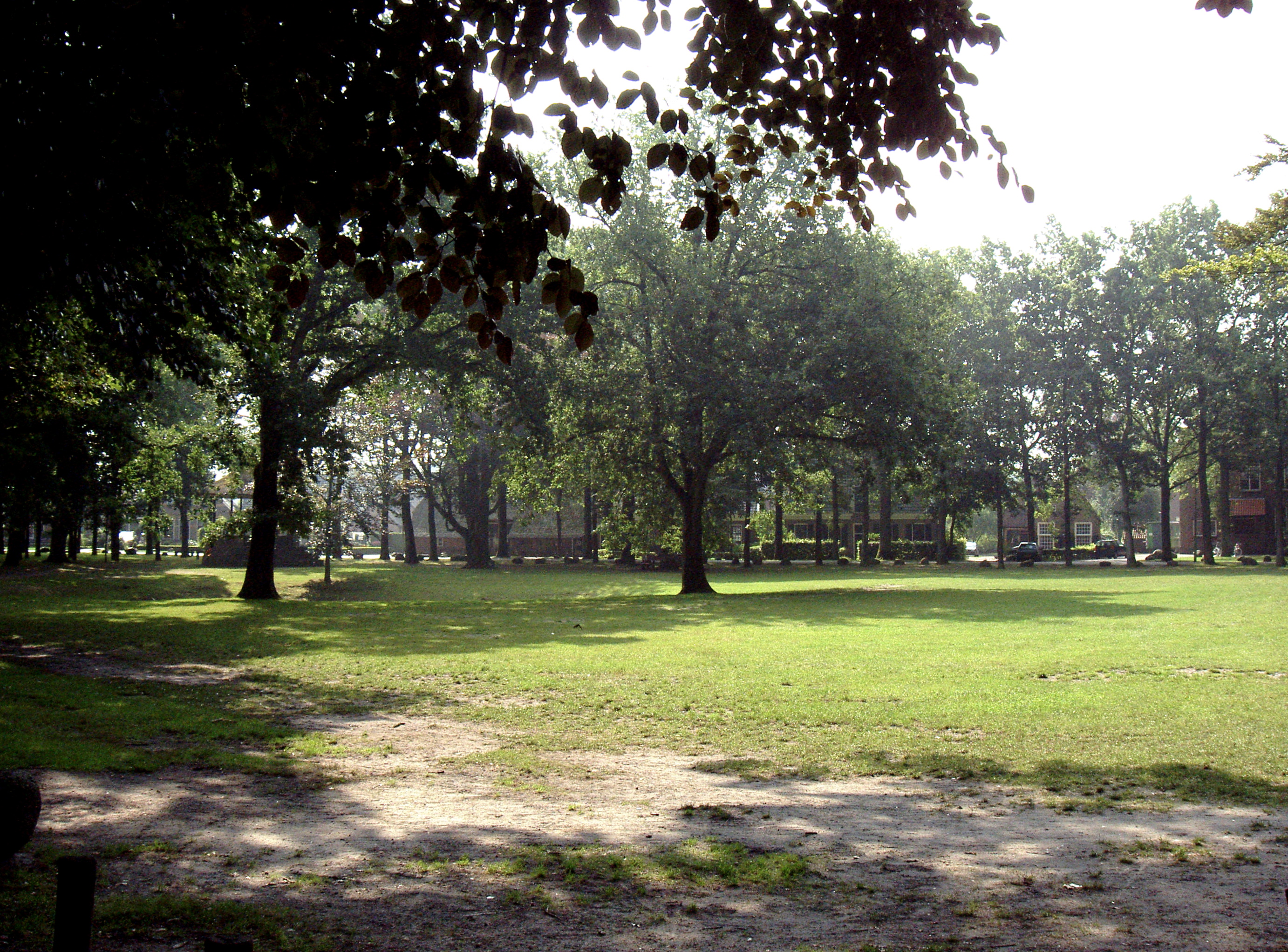 The ‘Brink’ in Dwingeloo, although not clearly visible on the picture, between the two trees in the middle-left part of the picture, there is a pool, which used to be used in case of fire.